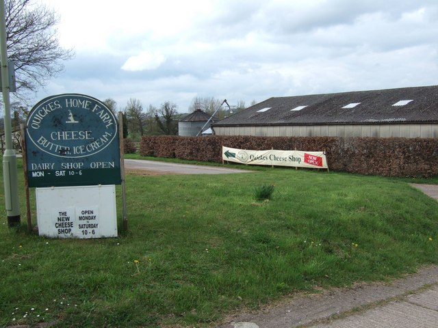 Quicke's (Cheese) Farm Shop, Newton St Cyres